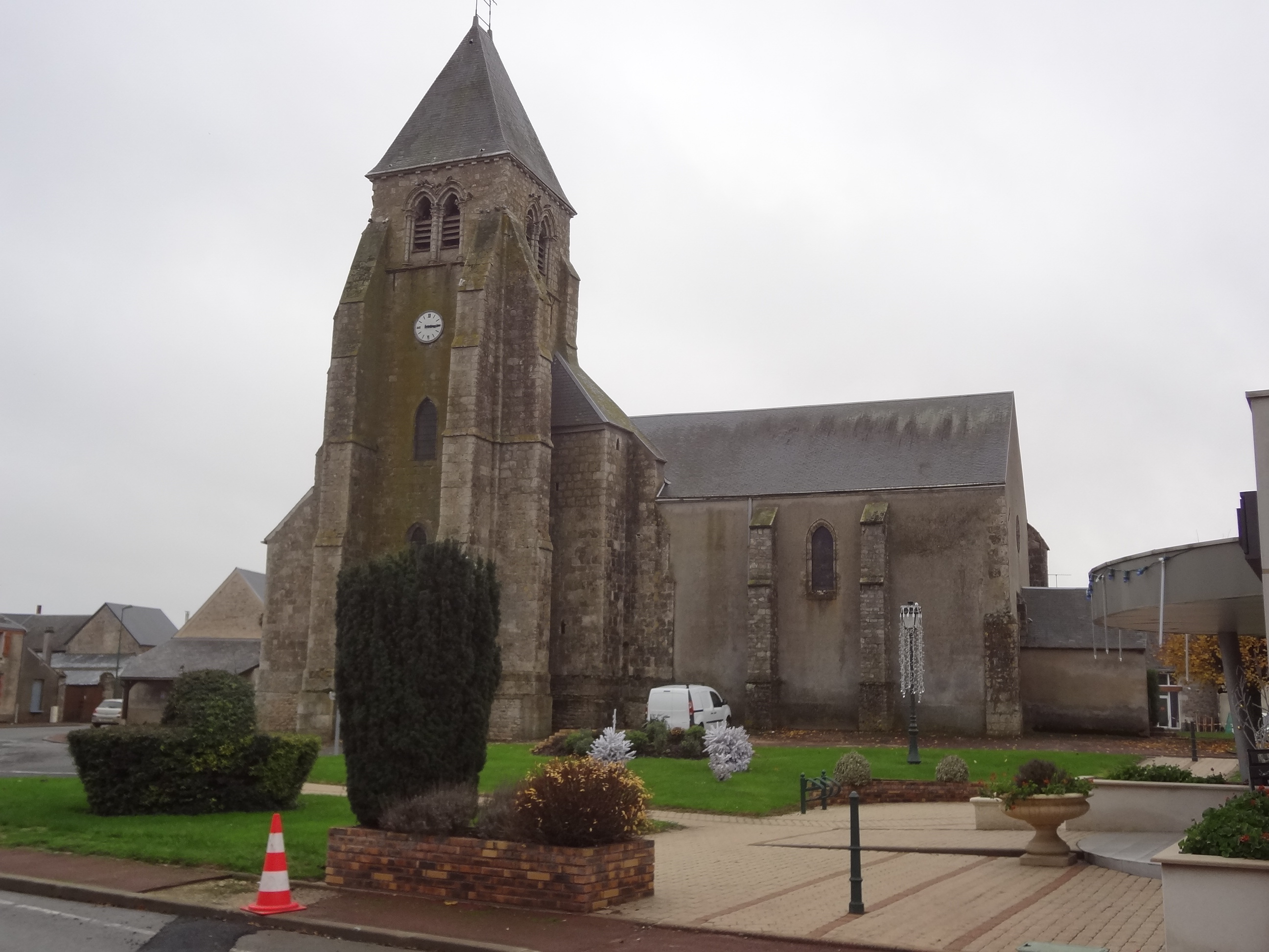 Saint-Liphard church, Oinville-Saint-Liphard, Eure-et-Loir, France